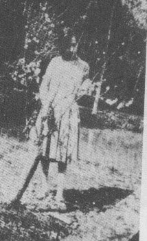 Eileen Chang (September 30, 1920 – September 8, 1995) was a Chinese writer.In 1930 in Hangzhou.